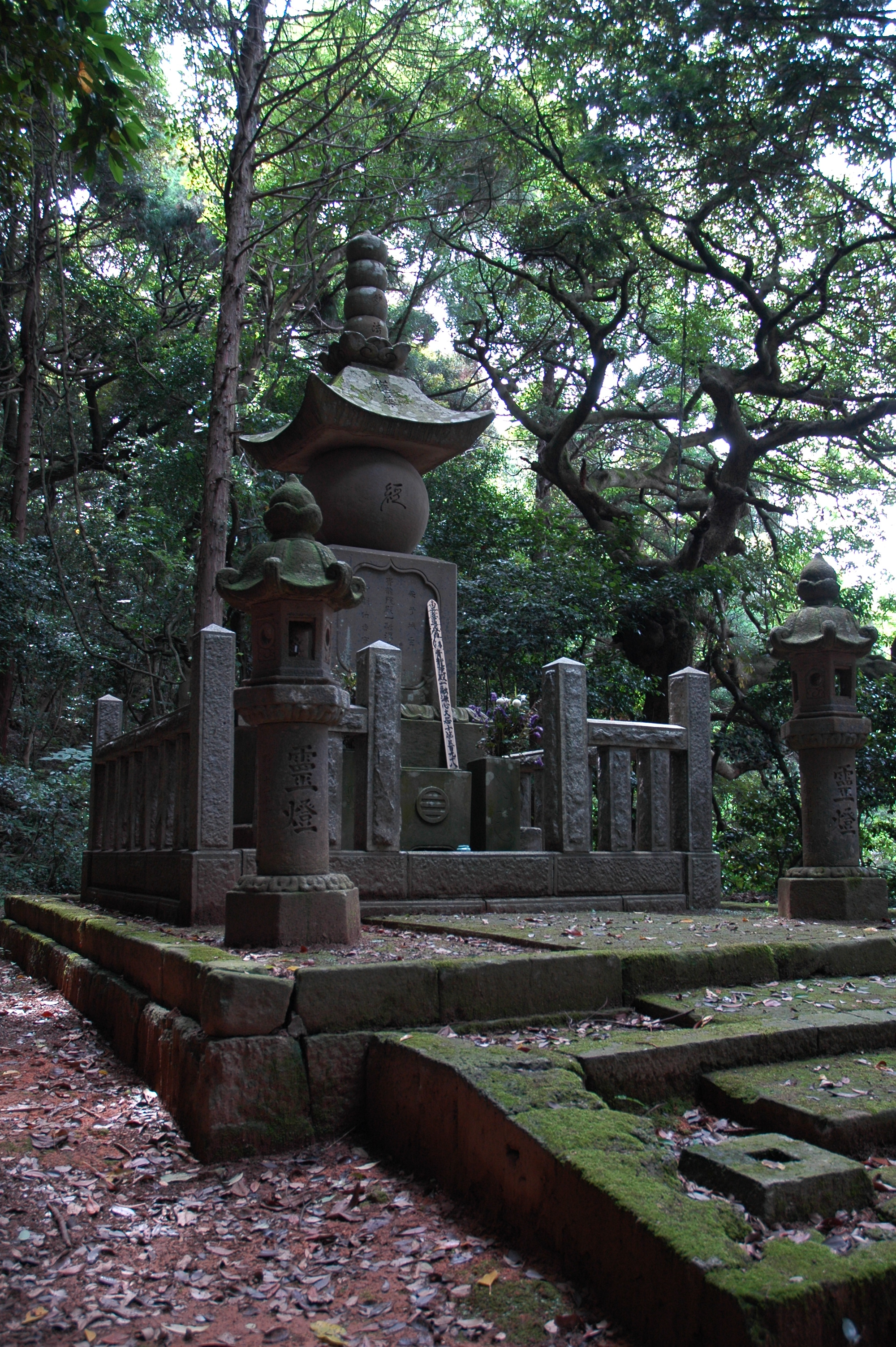 tomb of Nakamura Kazutada in Kannoji Yonago, Tottori, Japan